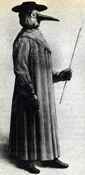 A plague doctor.